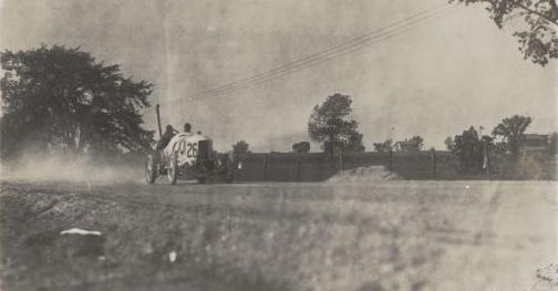 Mercedes #26, driven by Spencer Wishart, driving down a country road during the 1912 Vanderbilt Cup Race in Wauwatosa, Wisconsin. Two houses are on the right behind fences and fields.